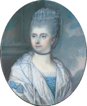 Portrait of Lady Caroline FitzRoy (1722–1784), daughter of Charles FitzRoy, 2nd Duke of Grafton and wife of William Stanhope, 2nd Earl of Harrington